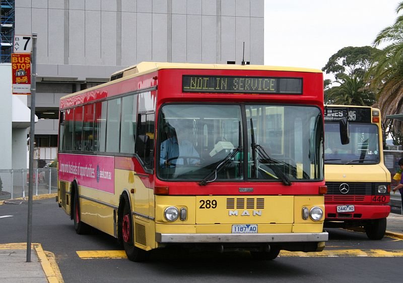 Dysons Mercedes O405/Volgren CR222L bus, Upfield VIC. March 2008.